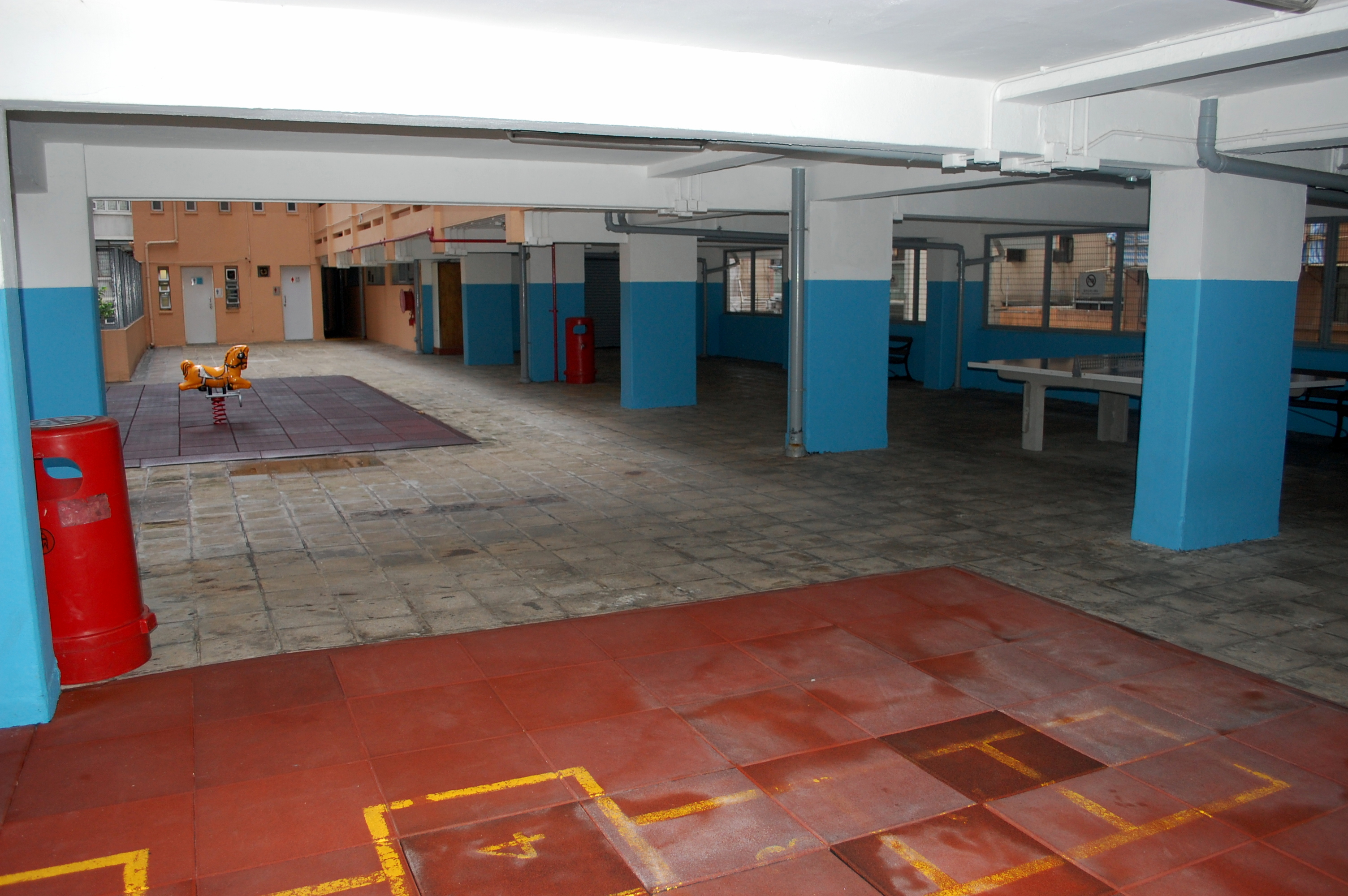 Children's "playground" within the Sai Ying Pun Post Office building, Pok Fu Lam Road.中文（香港）: 西營盤西營盤郵政局遊樂場